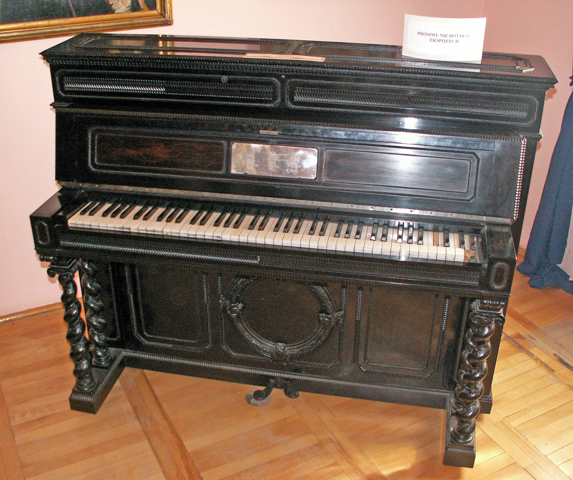 The piano, on which played Frédéric Chopin